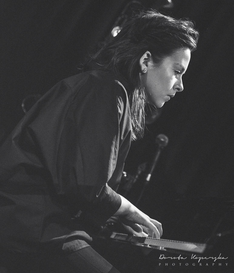 Kasia Pietrzko (born March 15, 1994, Bielsko-Biała) - Polish pianist and jazz composer